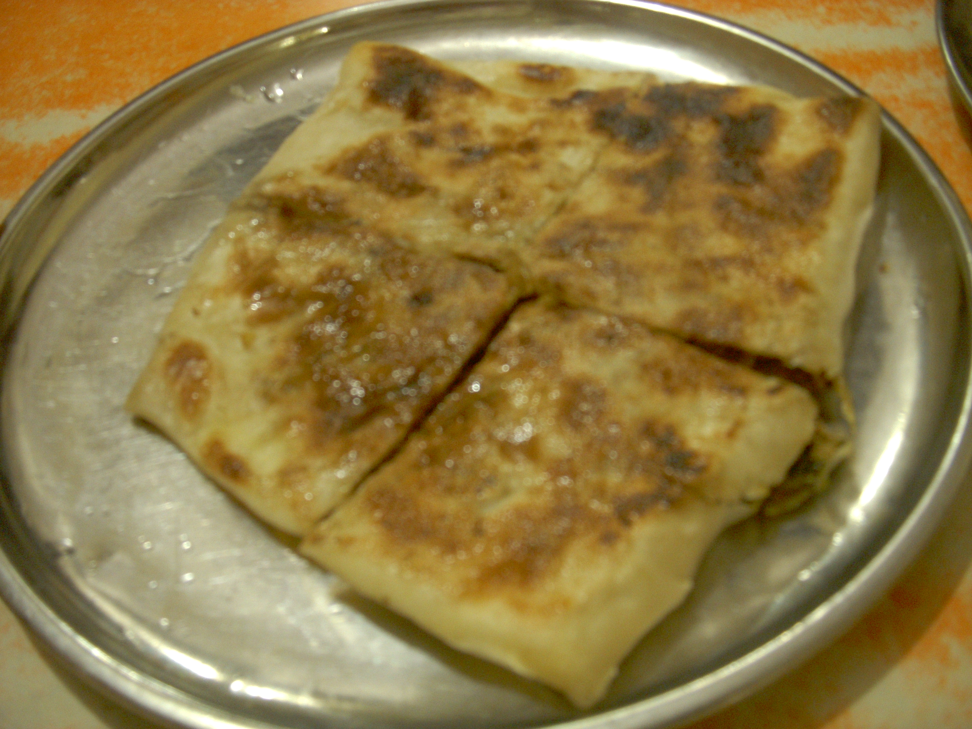 A maida bread with minced goat meat stuffed.